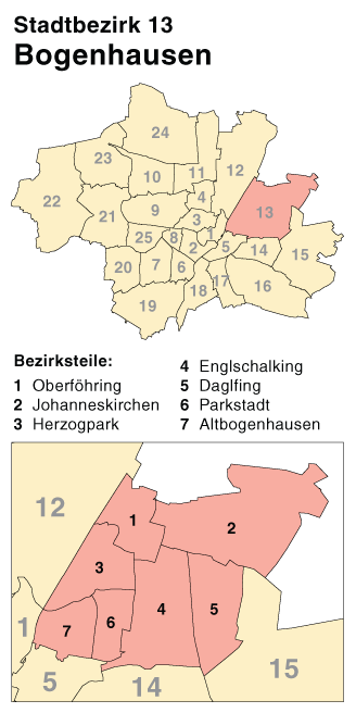 Boroughs of Munich map series